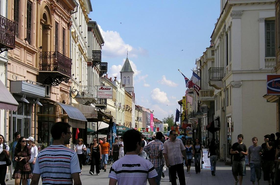 City of Bitola, Republic of Macedonia.